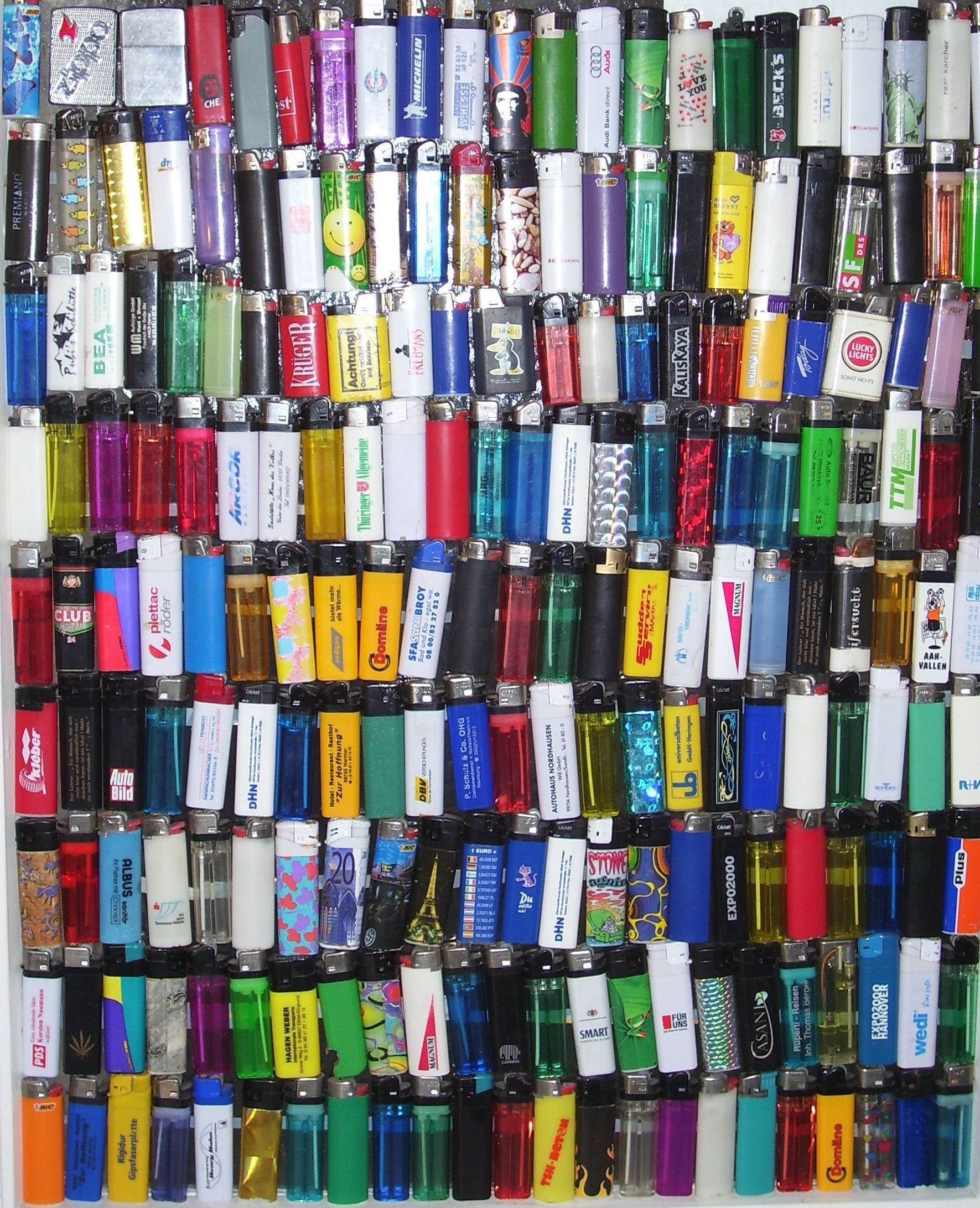 Pic made by user J C D it is puplic domain. J C D 20:46, 26 April 2006 (UTC)